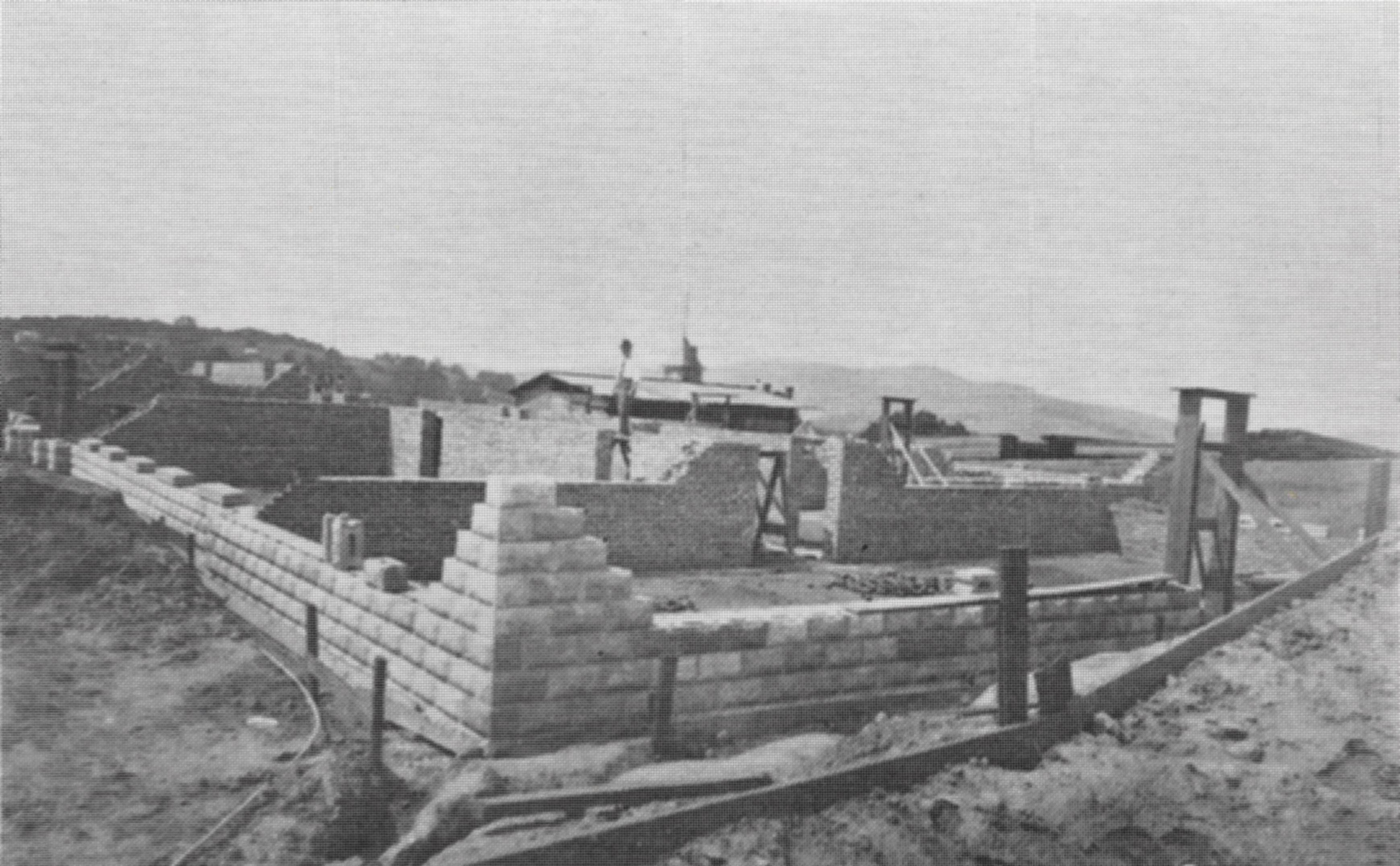 Photograph from the construction of Laura Yard Hill Building. Crary Hall's steeple is pictured near the center-rear of the image.